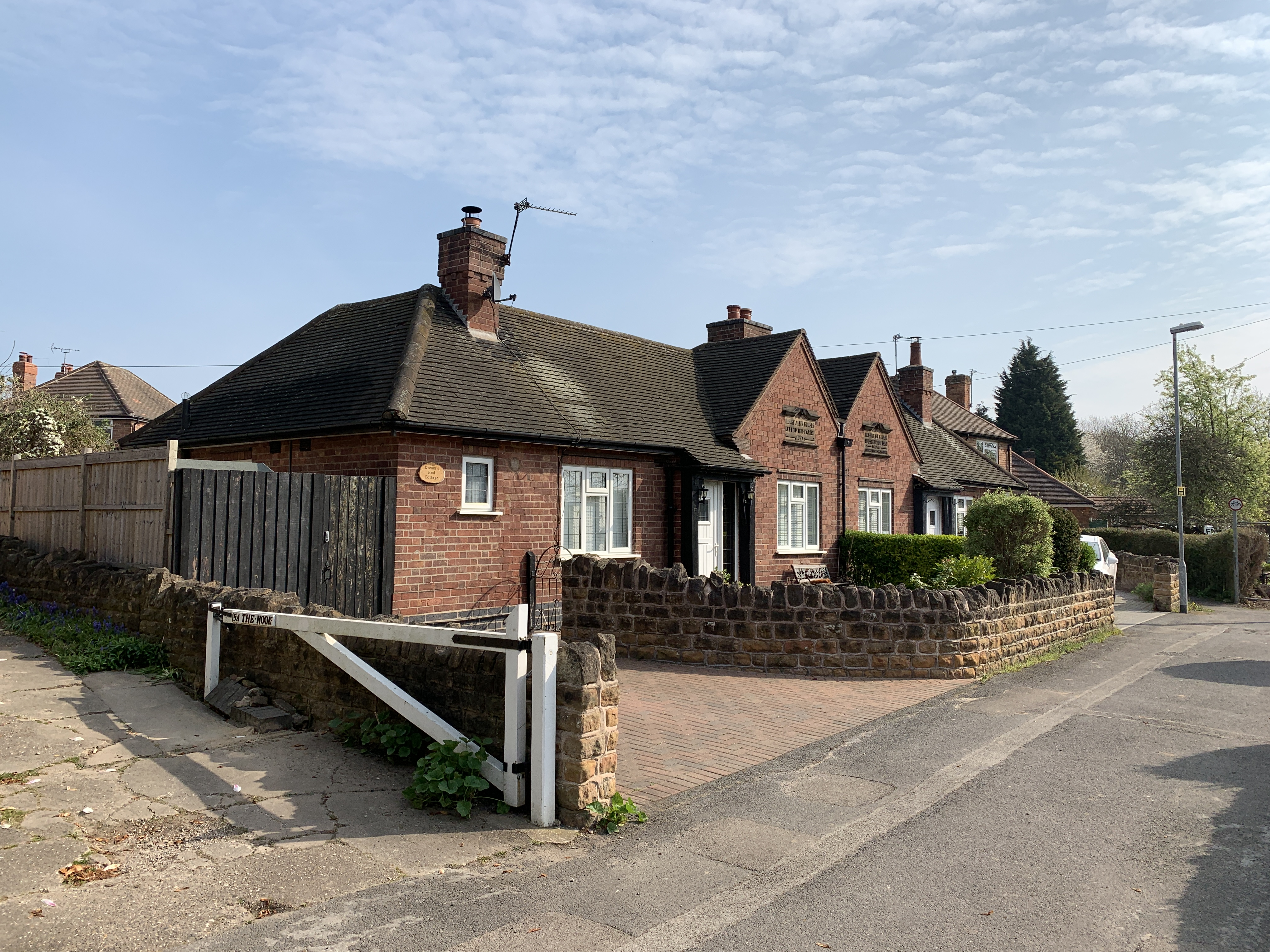 Established in 1697. Rebuilt 1937-38 by the architect John Frederick Dodd